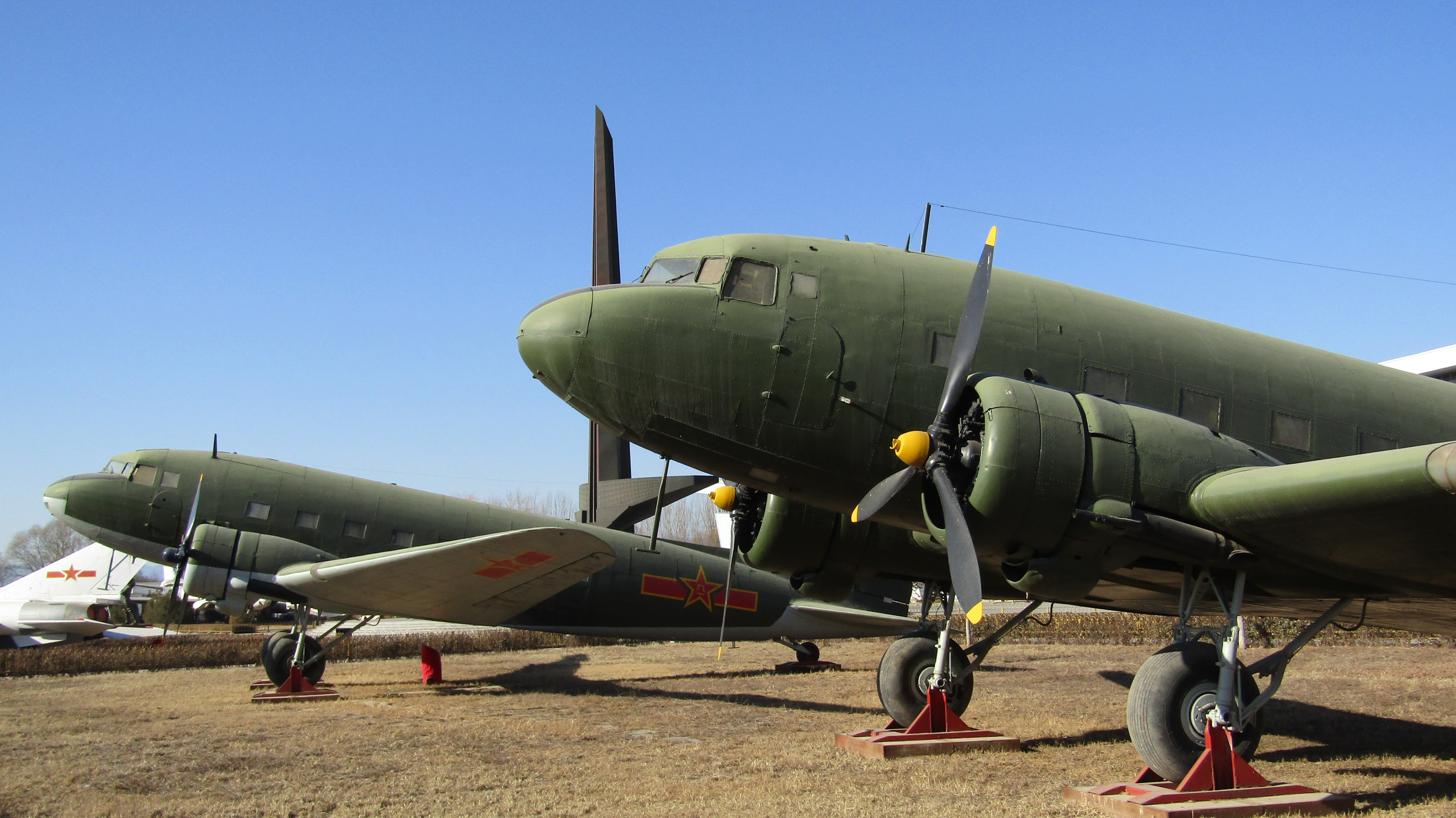 Lisunov Li-2s at China Aviation Museum, Beijing